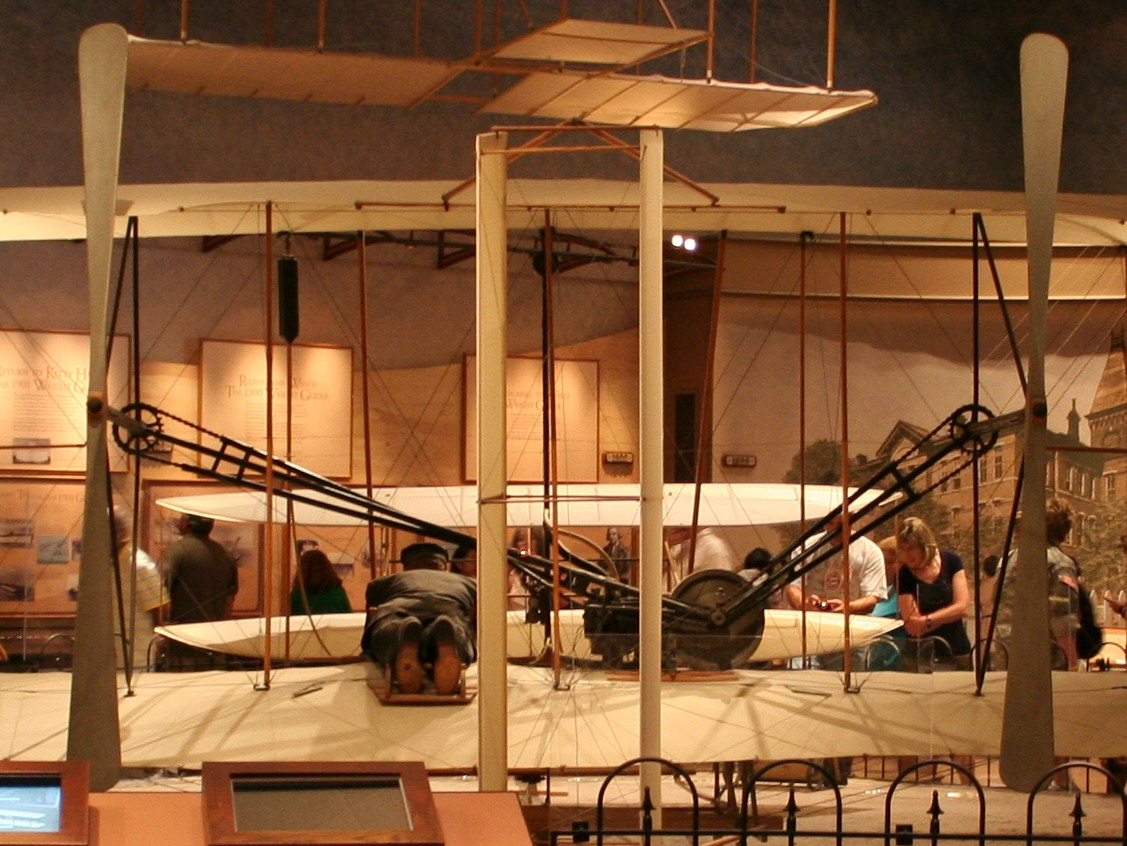 Rear view of the Wright Flyer, Smithsonian Institution, Washington, D.C. (Cropped image to concentrate about the engine, propellers and pilot's position).